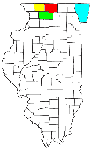 Locator map of the Rockford-Freeport-Rochelle Combined Statistical Area in the central part of the U.S. state of Illinois. The three components of the CSA are colored separately: Columbia Metropolitan Statistical Area: red Freeport Micropolitan Statistical Area: yellow Rochelle Micropolitan Statistical Area: green